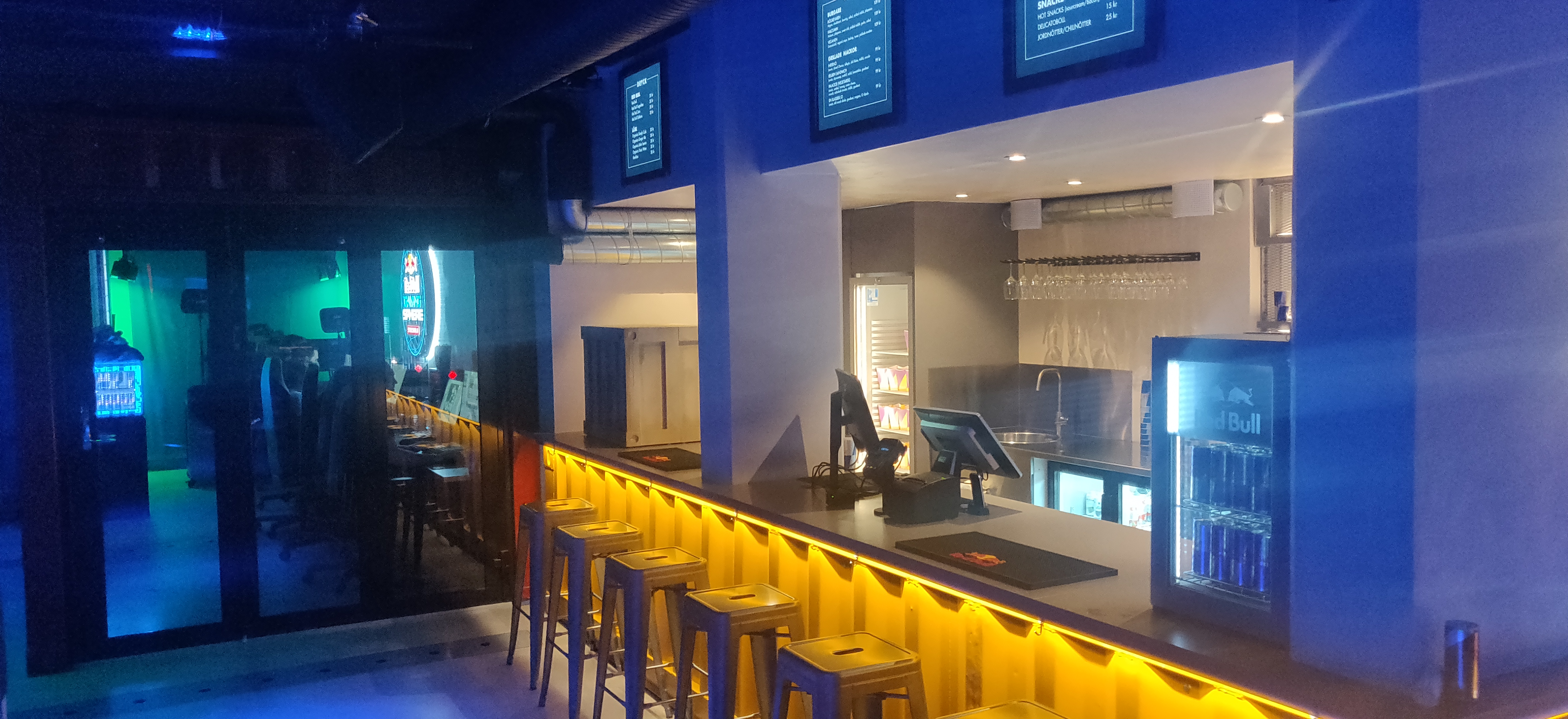 Redbull Gaming Sphere at the gamingcafé Inferno Online Odenplan